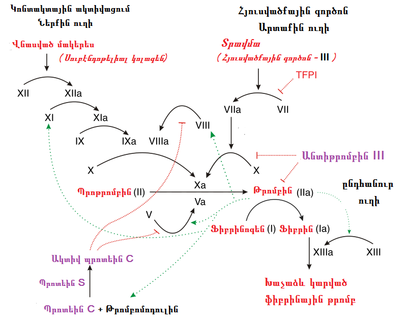 More in-depth version of the coagulation cascade